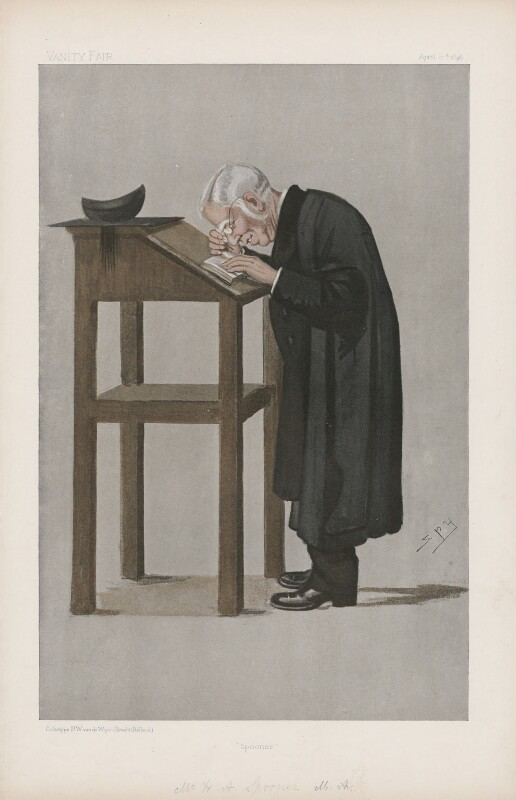 Caricature of Mr WA Spooner MA.